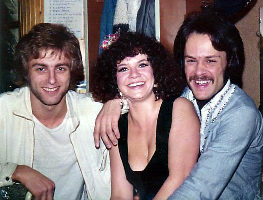 Örjan Ramberg, Agneta Lindén & Lars Jacob, as released by image creator Lars Jacob ProdPlace: Fattighuset, Döbelnsgatan 3, Stockholm, Sweden Hindi: अग्नेटा के साथ